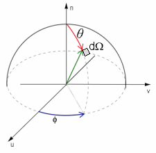 Solid angle